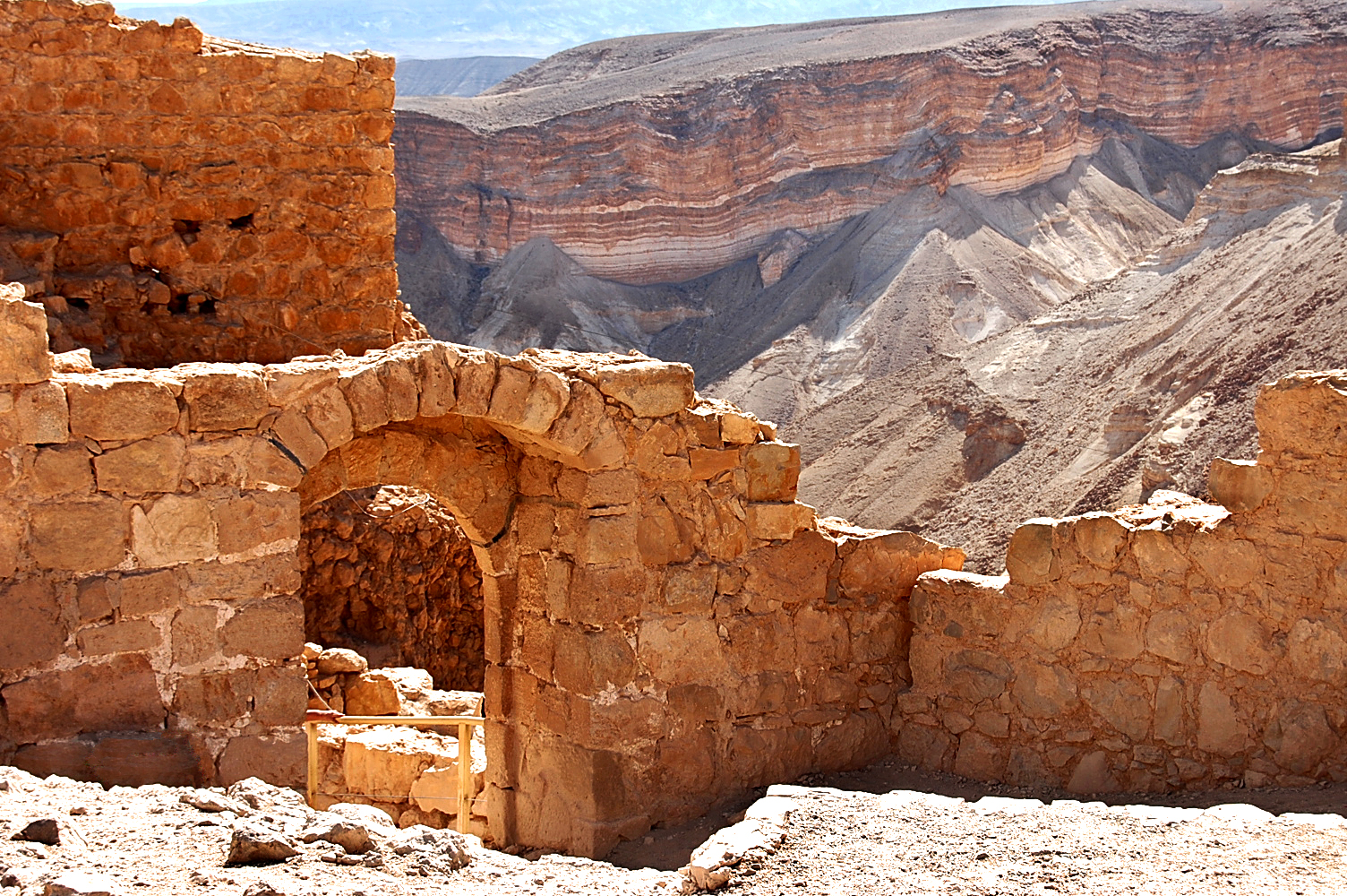 Ruins on mount Masada by the Dead sea, merge into the valley colorful wall at the end of a winter day.